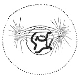 Diagram showing the changes which occur in the centrosomes and nucleus of a cell in the process of mitotic division. (Schäfer.) I to III, prophase; IV, metaphase; V and VI, anaphase; VII and VIII, telophase. This is step III cut out from :Image:Gray2.png. The original copyright is duplicated below.